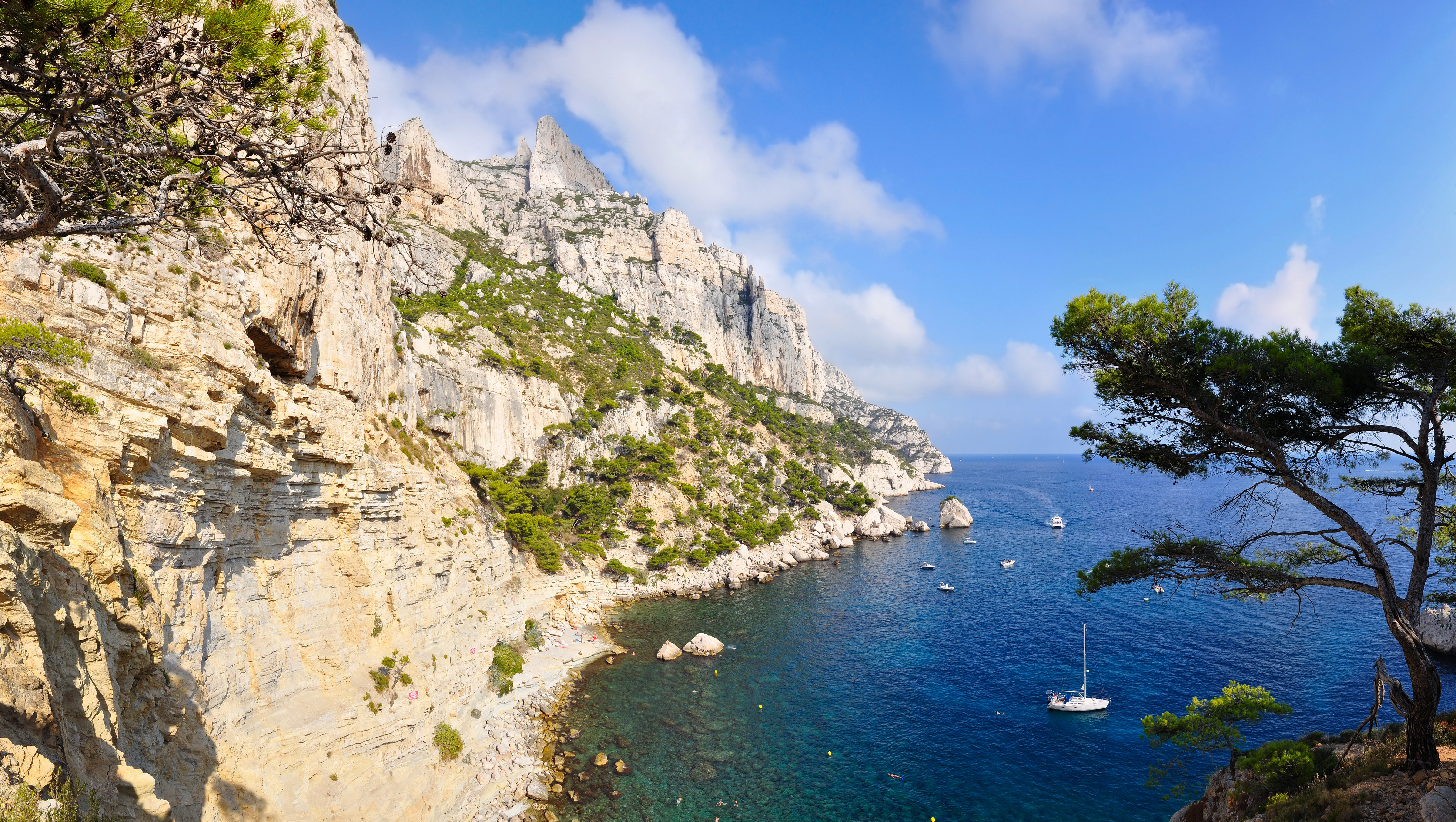 Calanque des Pierres-Tombées (fallen stones) near Marseille with the cliffs of Devenson in the background